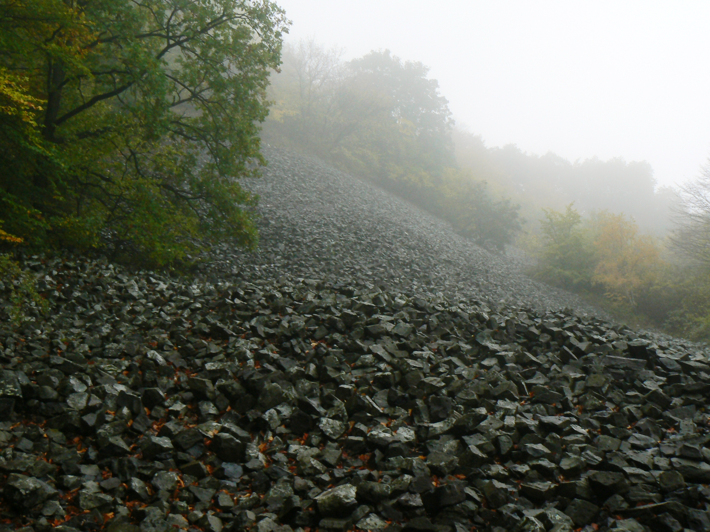 The Stone Sea near the Šomoška Stone Waterfall and Šomoška Castle, located in Cerová vrchovina nature reserve on the border between Slovakia and Hungary